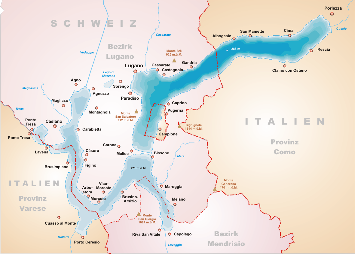 Map of Lake Lugano, Switzerland/Italy. Place names are in German instead of Italian.